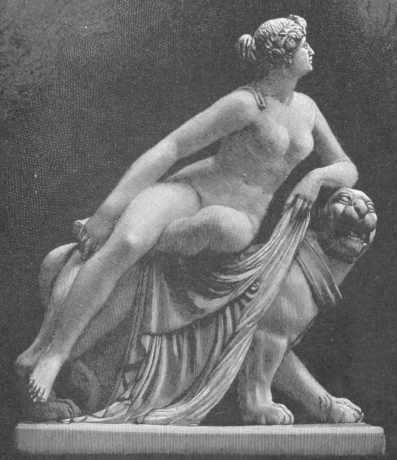 Illustration of the statue Ariadne on the Panther by Johann Heinrich von Dannecker, 1824. Frankfurt.